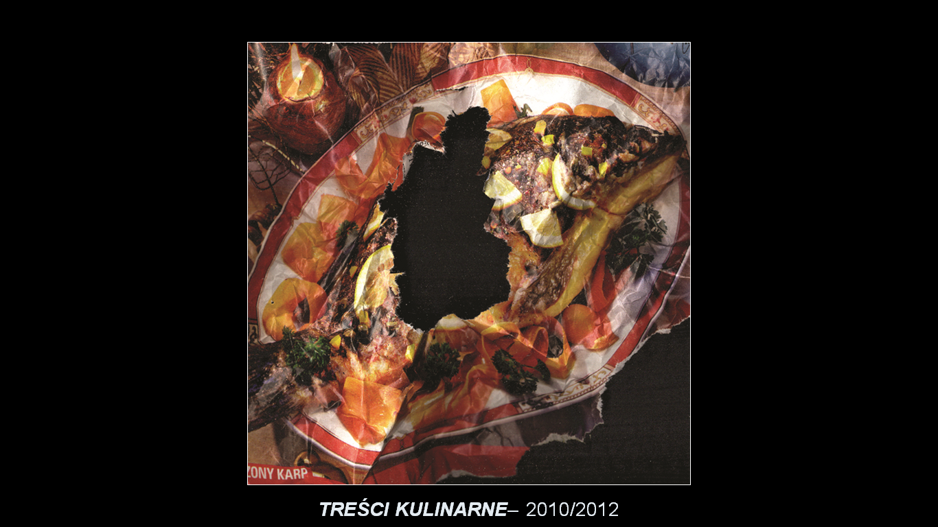 This file is a reproduction of a photo created by Anna Kutera.